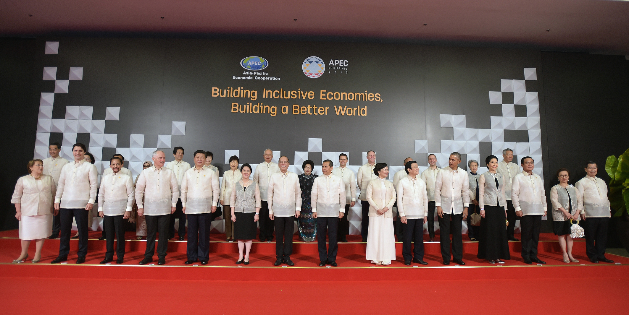 Foro APEC 2015